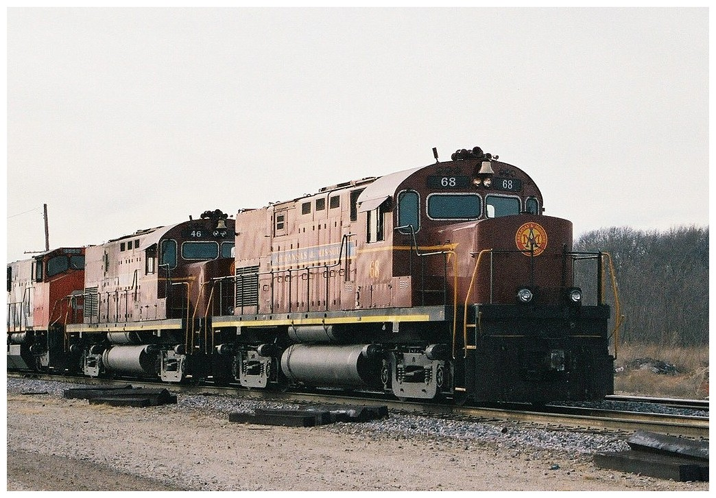 Arkansas & Missouri Railroad #68, Alco C420